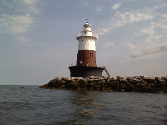 Norwalk, Connecticut